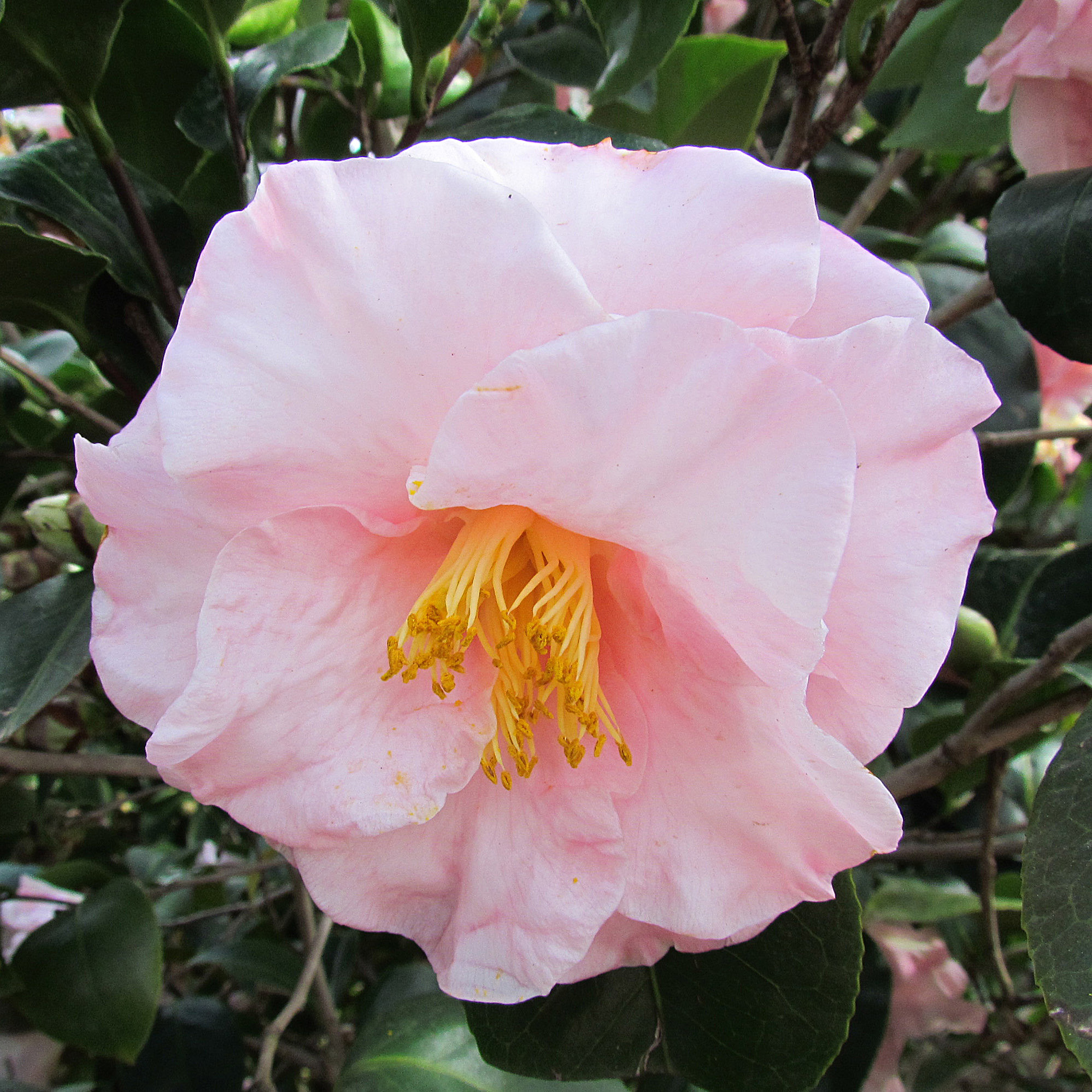 Camellia flower